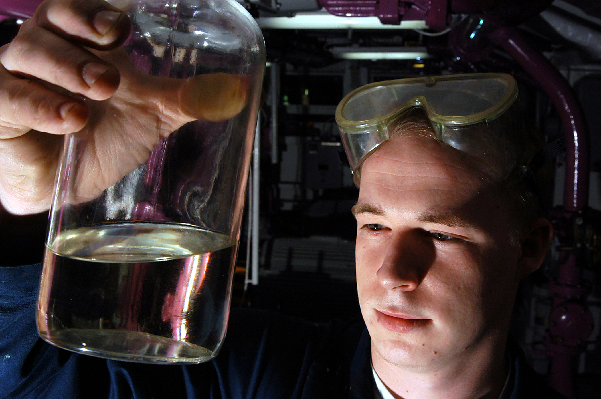 Arabian Gulf (Mar. 23, 2004) – Airman Michael Hinshaw, of Pilot Mountain, N.C., inspects a sample of JP-5 aviation fuel in a pump room aboard USS George Washington (CVN 73). The Norfolk, Va.-based nuclear powered aircraft carrier is on a regularly scheduled deployment in support of Operation Iraqi Freedom (OIF). U.S. Navy photo by Photographer’s Mate Airman Joan Kretschmer. (RELEASED)